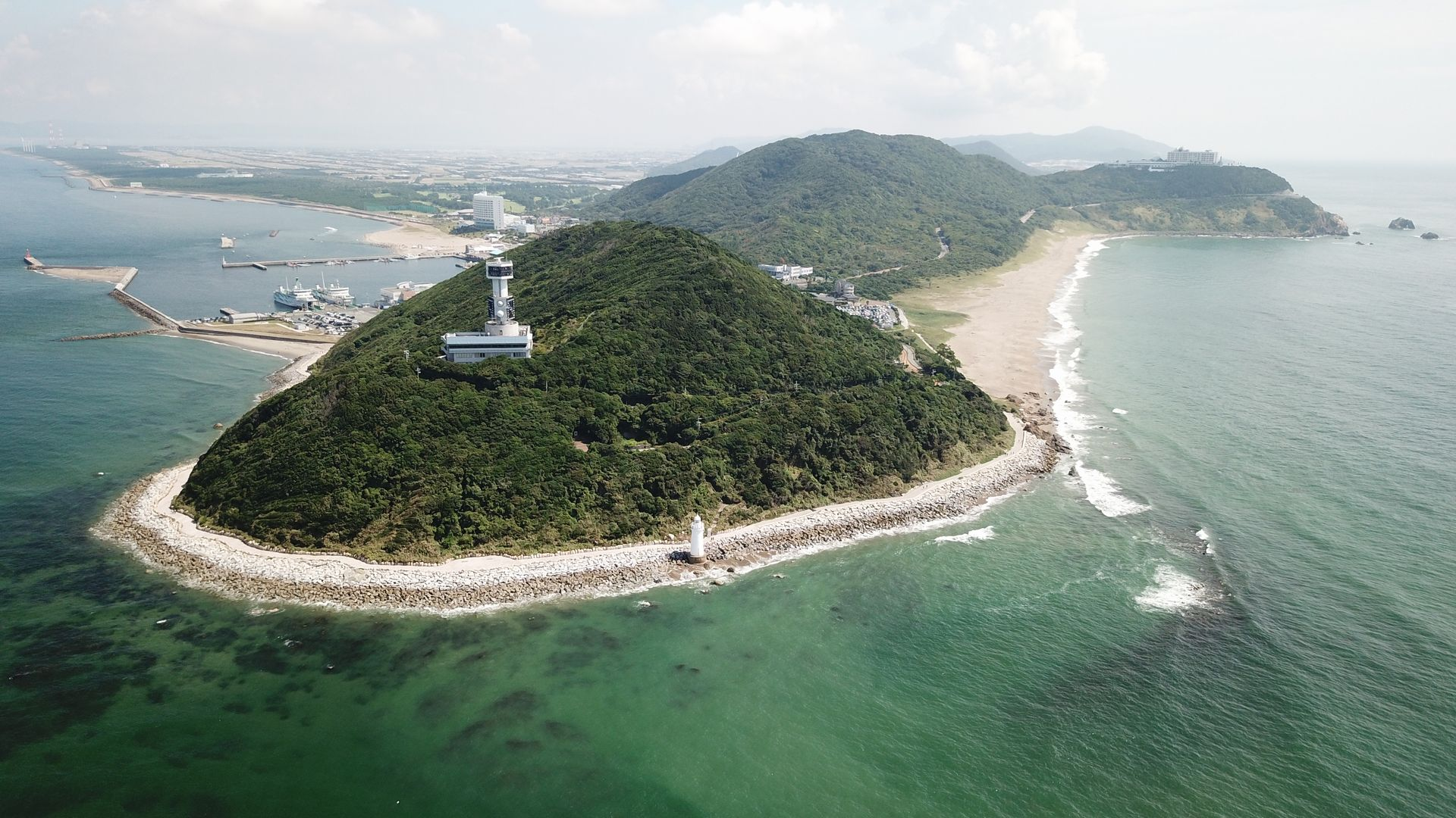 The IRAGO-MISAKI promontory (TAHARA-city, AICHI-pref., JAPAN)